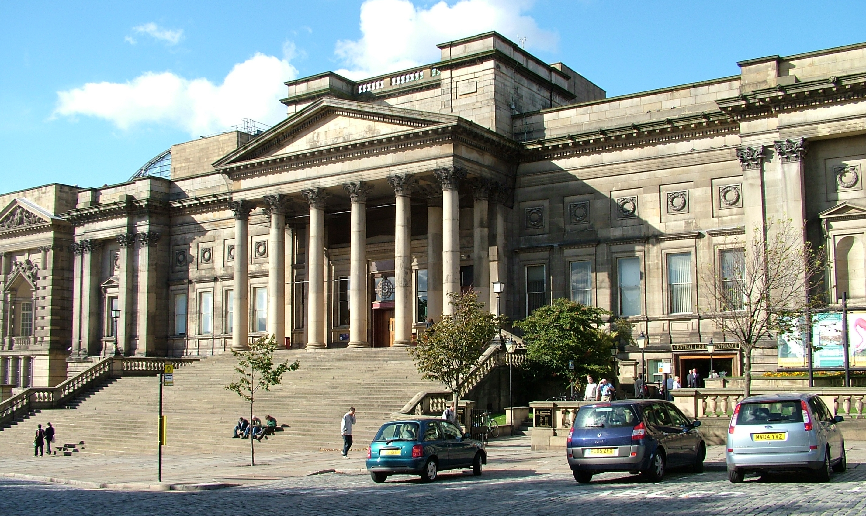 Liverpool Museum and Library. Taken by Chris Howells, September 2005.